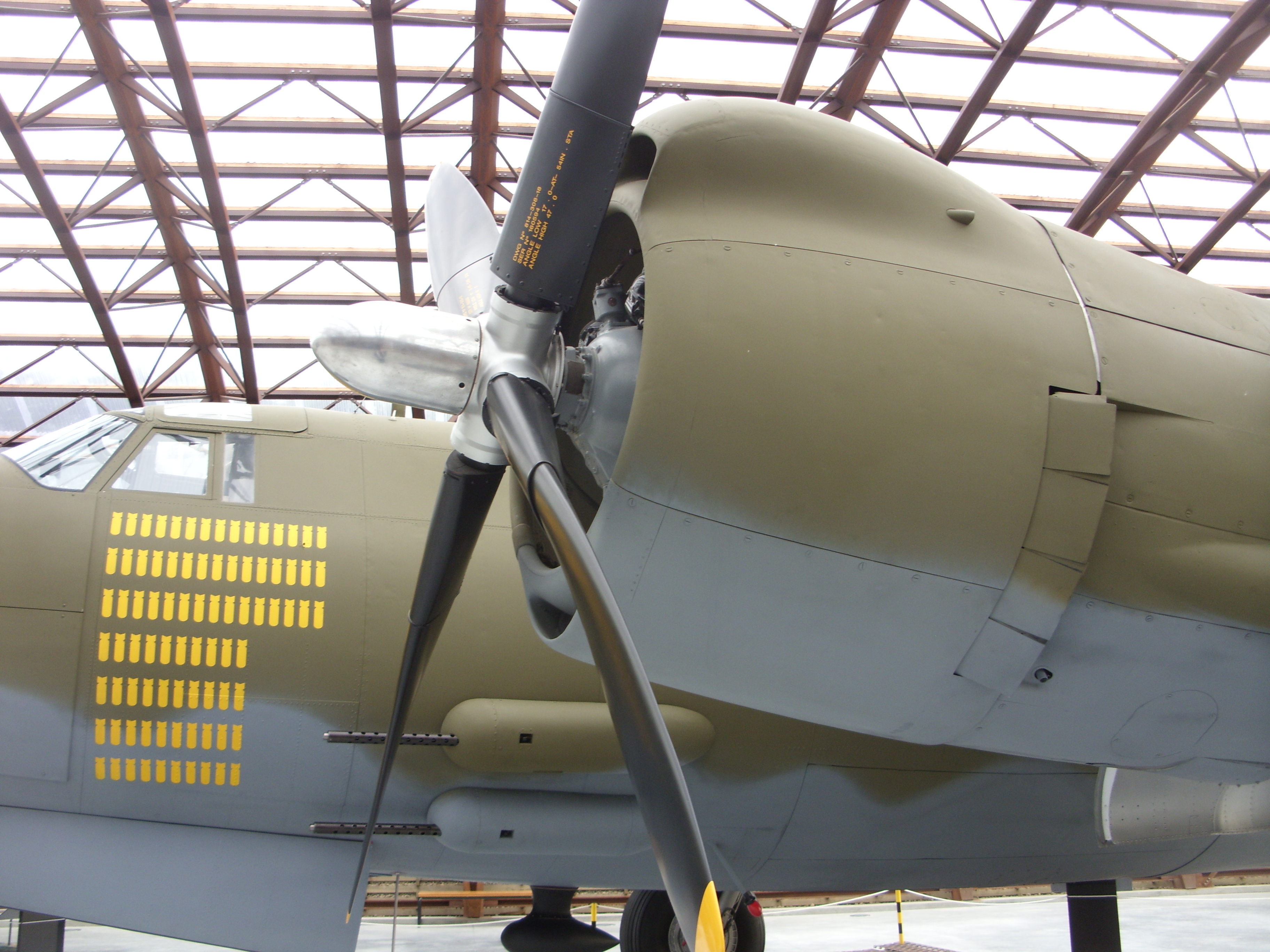 Martin B-26G Marauder 44-68219 painted to represent 41-31576 "131576" "Dinah Might" AN-Z of the 553rd Bomb Squadron of the United States Army Air Force and on display at the Utah Beach Museum (Musée du Débarquement Utah Beach)